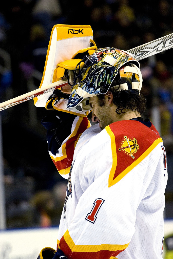 Roberto_Luongo, ice hockey goelatender of the Florida Panthers